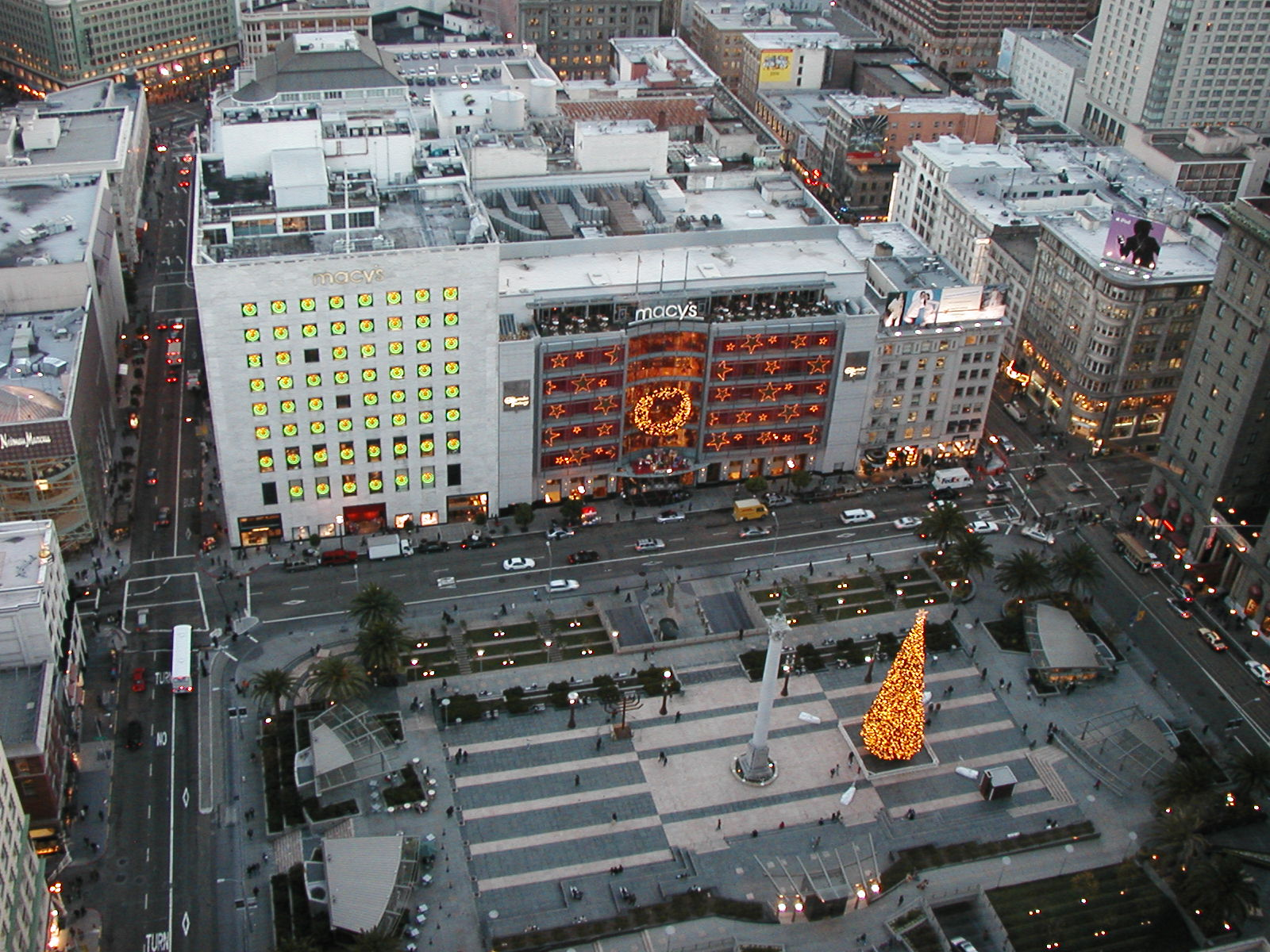 Union Square Christmas from 36 Stories Up